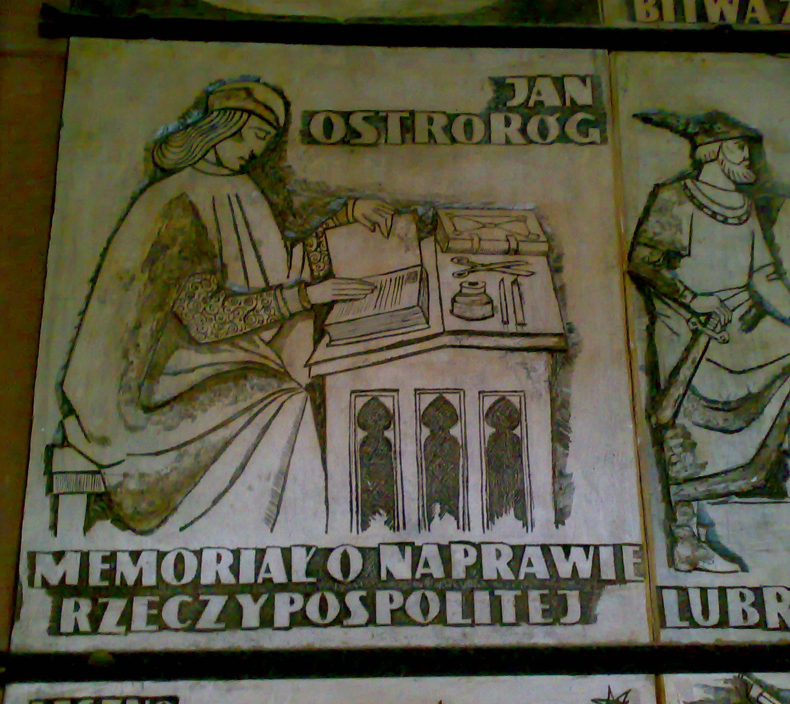 Jan Ostrorog.